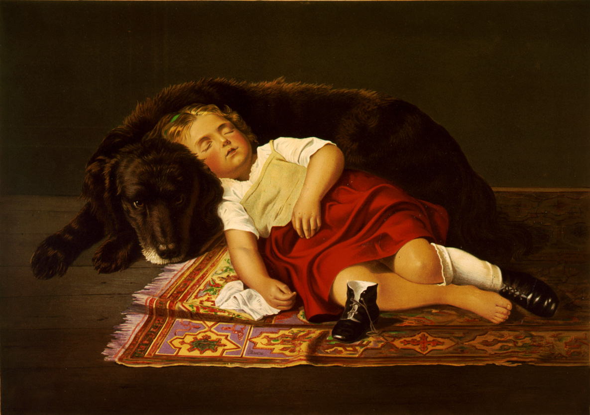 "Faithfull [sic] watcher": Lithograph shows young girl asleep on floor, with her head on dog. 1 print : chromolithograph.